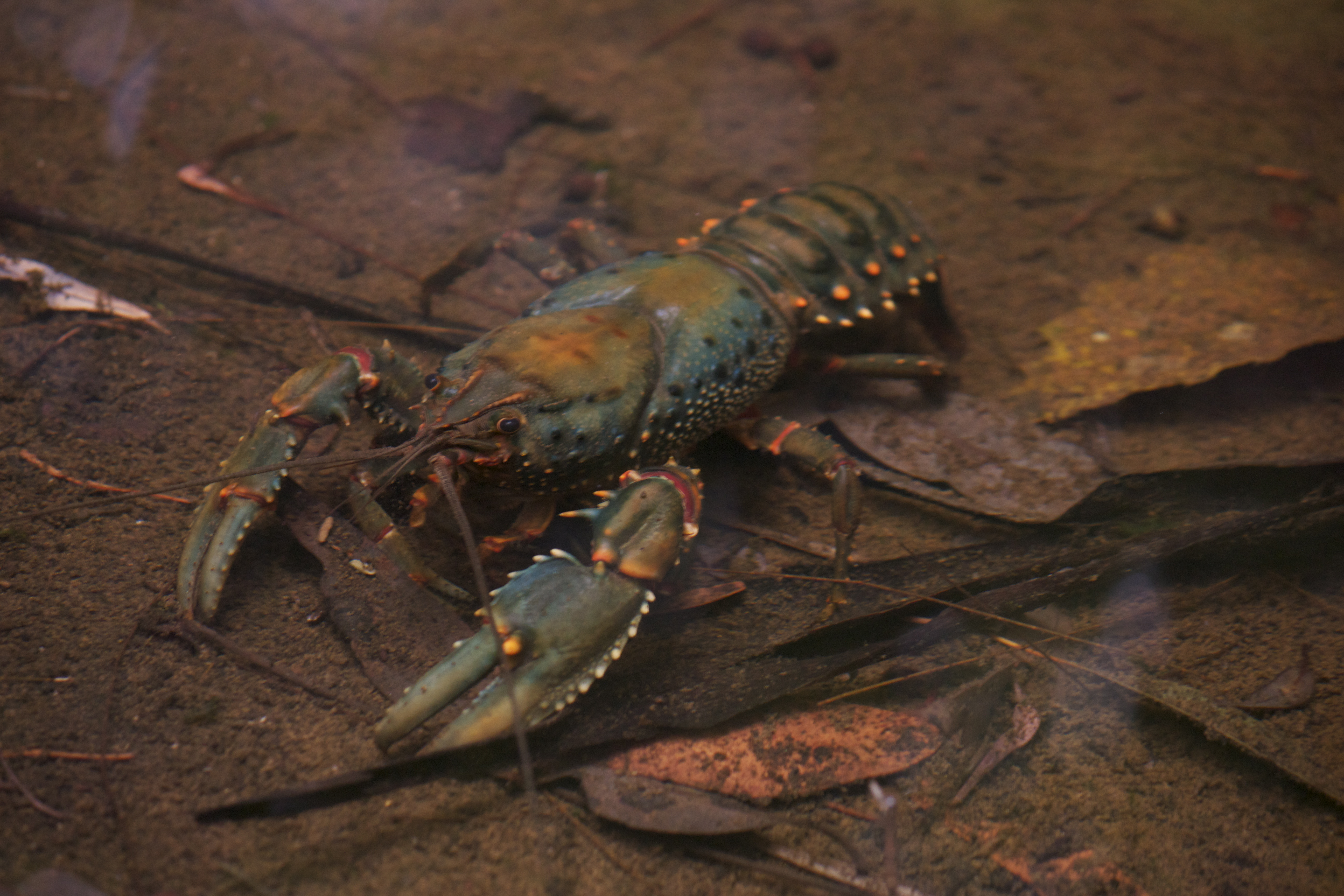 Cherax Quadricarinatus or Blueclaw Yabby or Redclaw Yabby is a yabby commonly found in fresh water streams in Australia